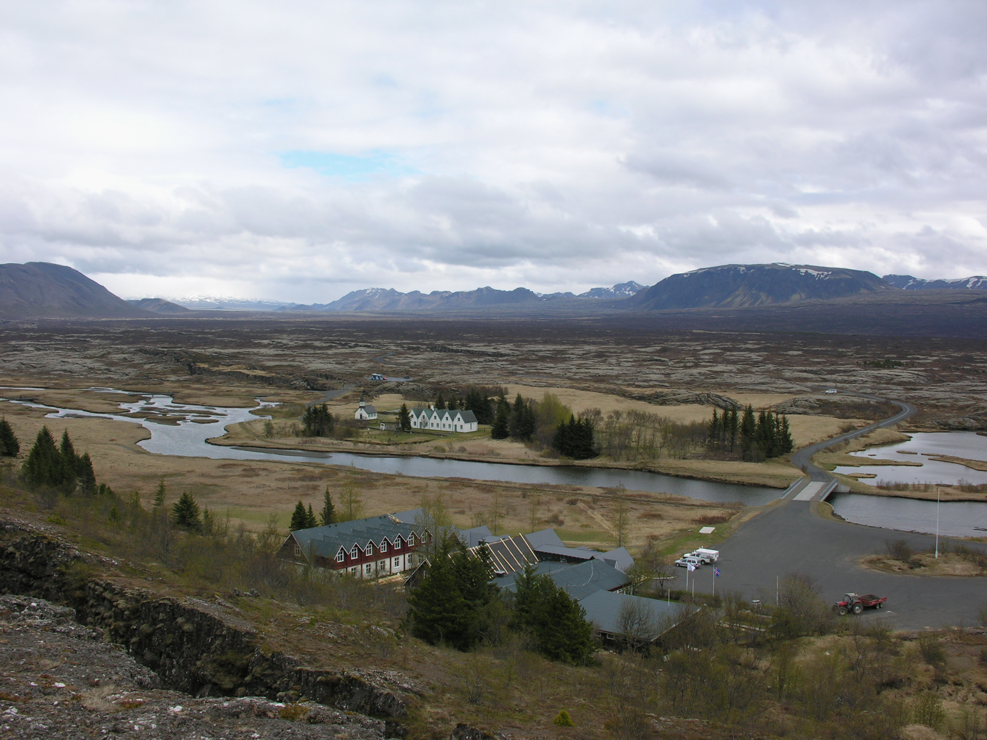 Iceland, Þingvellir National Park